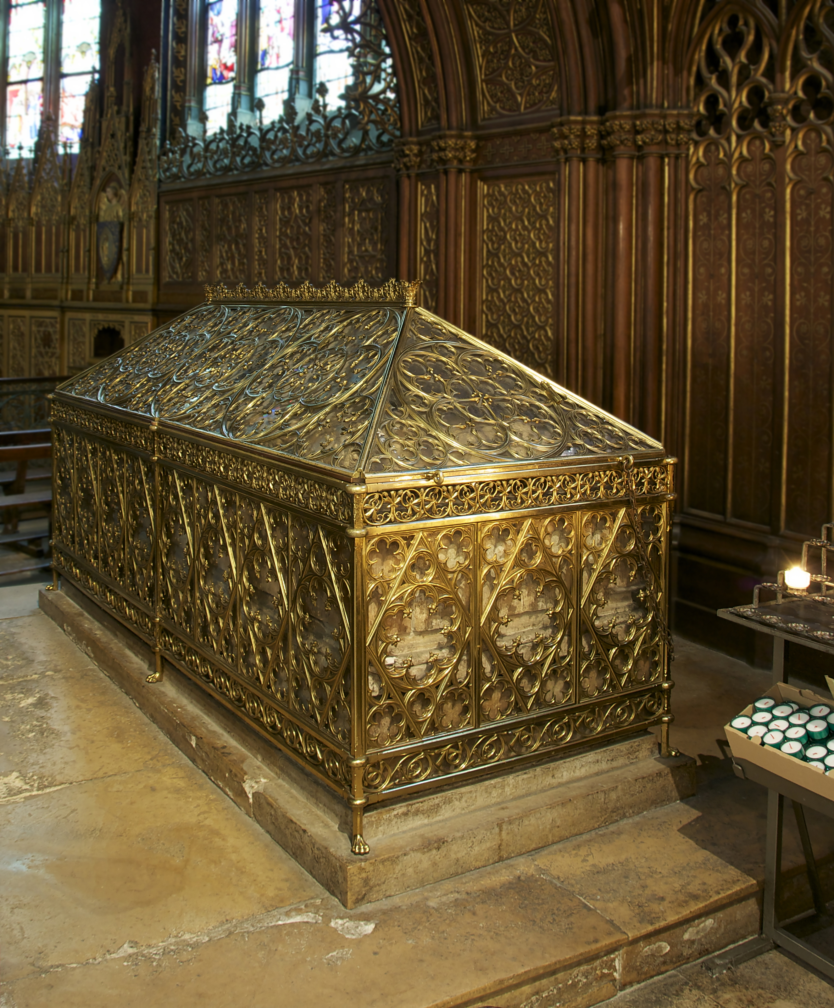 The tomb (shrine) of Saint Genevieve, Saint Patron of Paris, Church St Etienne du Mont, Paris.